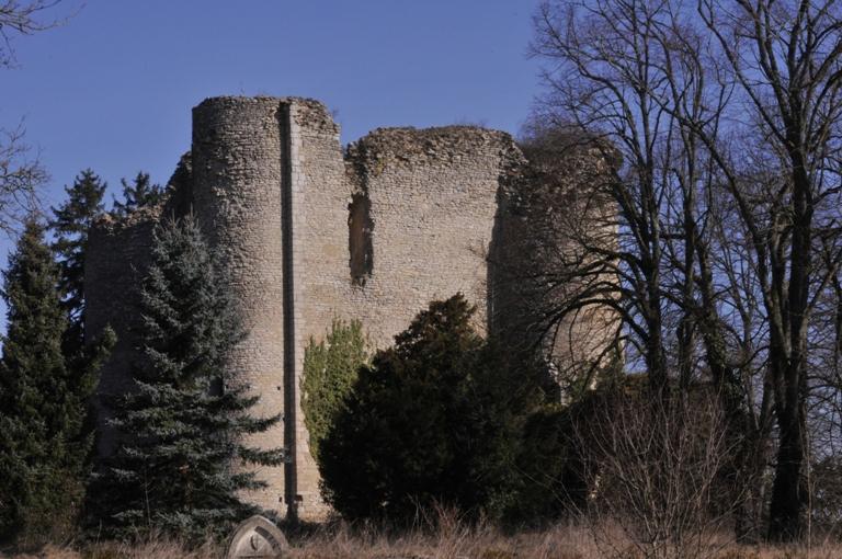 Dungeon of Jouy, castle, Sancoins, Cher